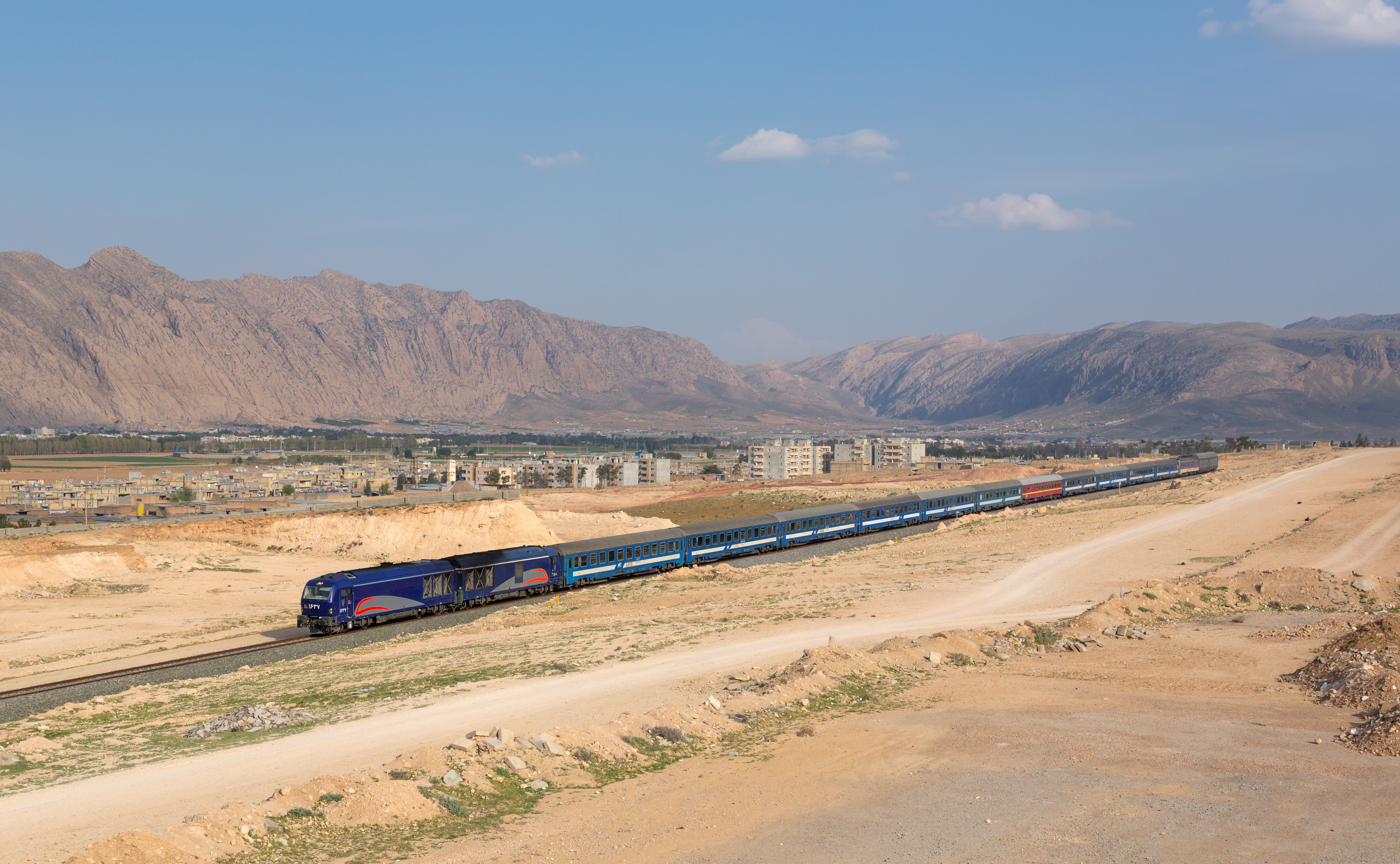 Siemens ER24PC 1637 "IranRunner" of the Islamic Republic of Iran Railways with the night train from Shiraz to Tehran outside of Shiraz, Iran.